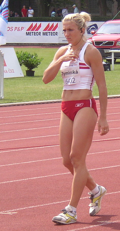 Polish heptathlete Karolina Tymińska preparing for an attempt in long jump at TNT - Fortuna Meeting in Kladno, June 19, 2008.